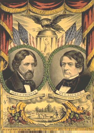 1856 US campaign banner, 1856, for John Fremont.